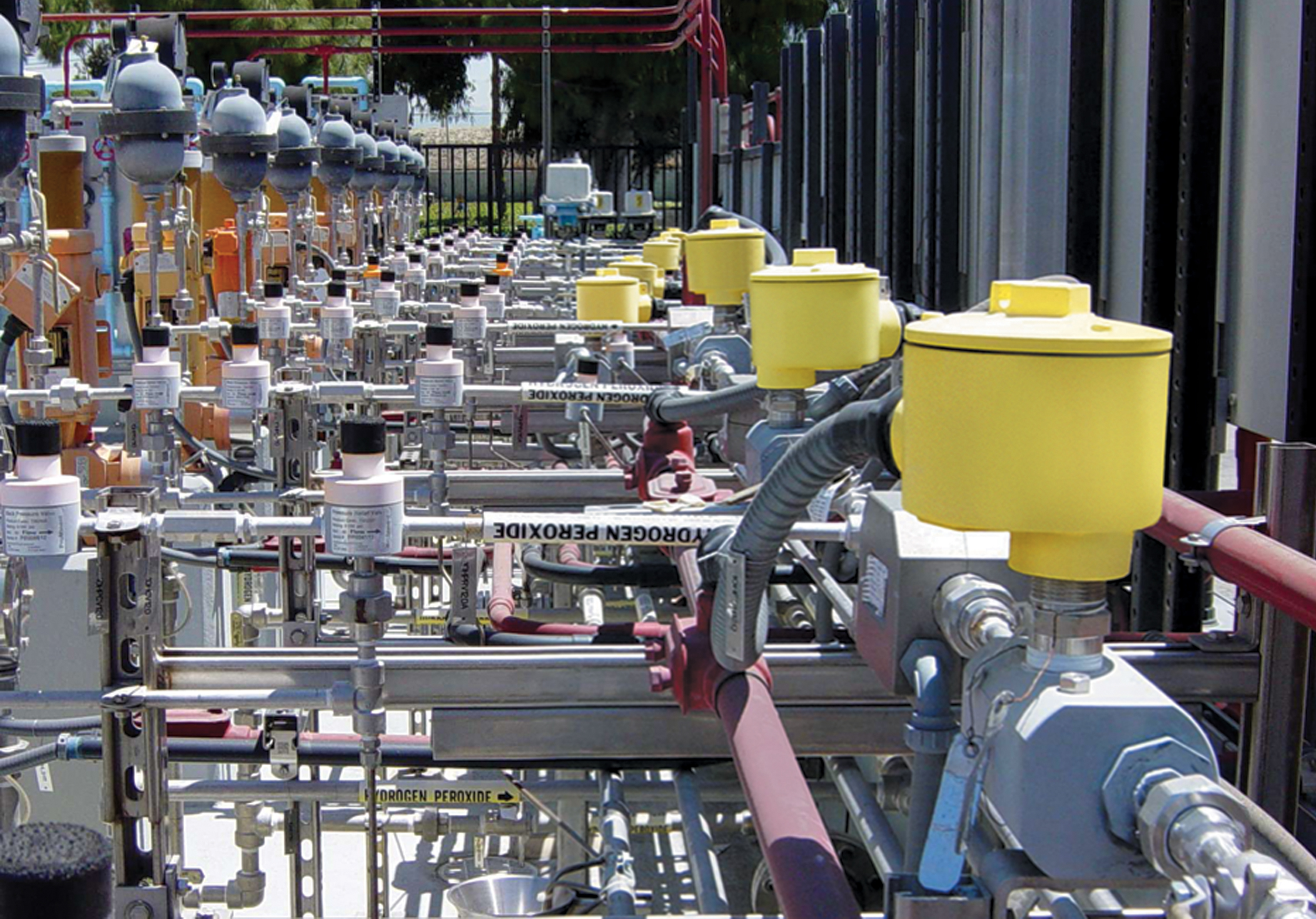 Flow switches at Orange County Sanitation District in Orange County, California. The flow switches are FLT93 flow switches manufactured by Fluid Components International.